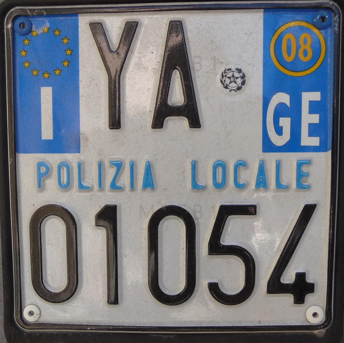 License plate for motorcycles of the Italien Polizia locale, GE = Genoa, 08 = first registered in 2008